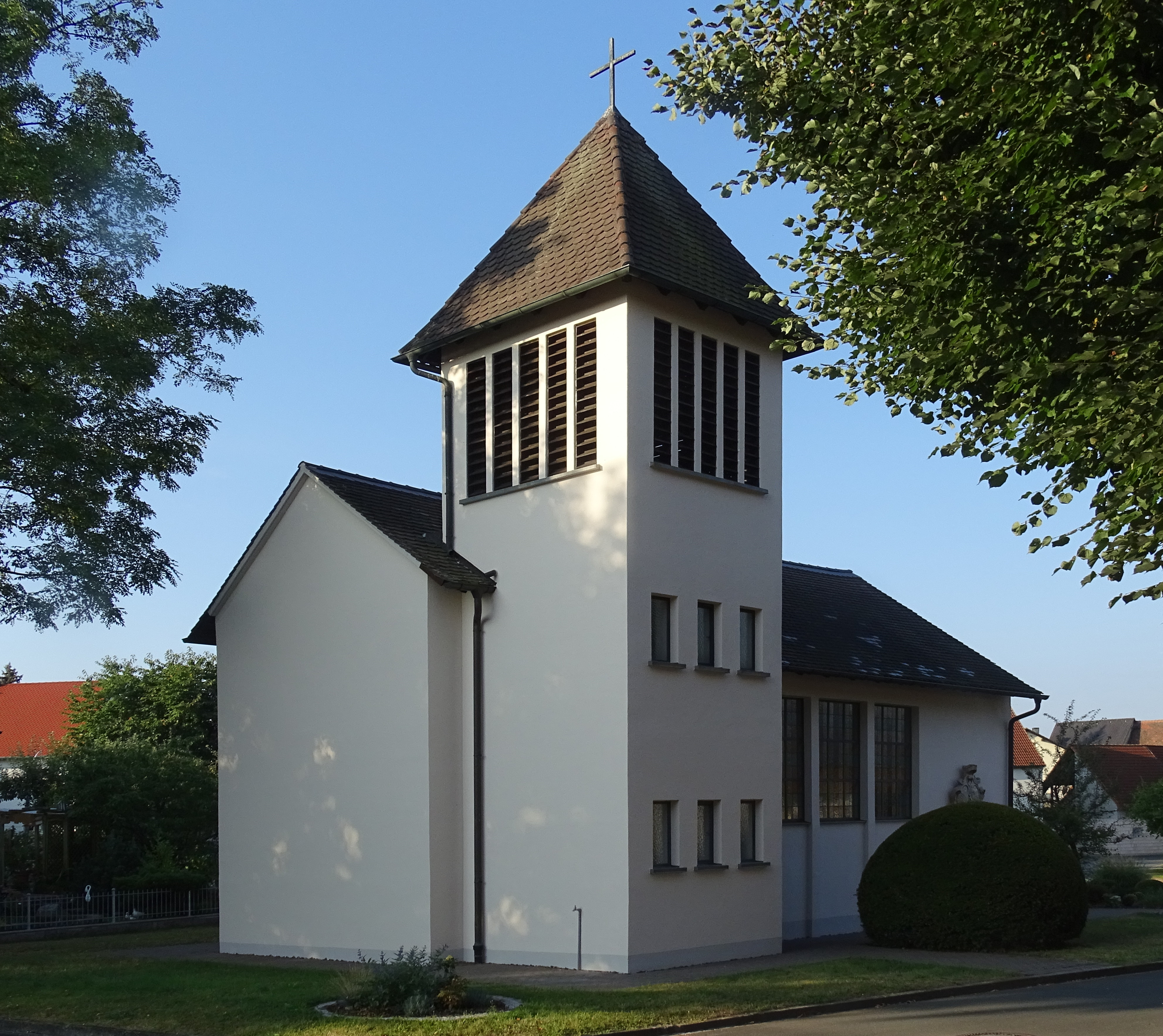 Former chapel of the local castle in Grasmannsdorf, Ruhstraße